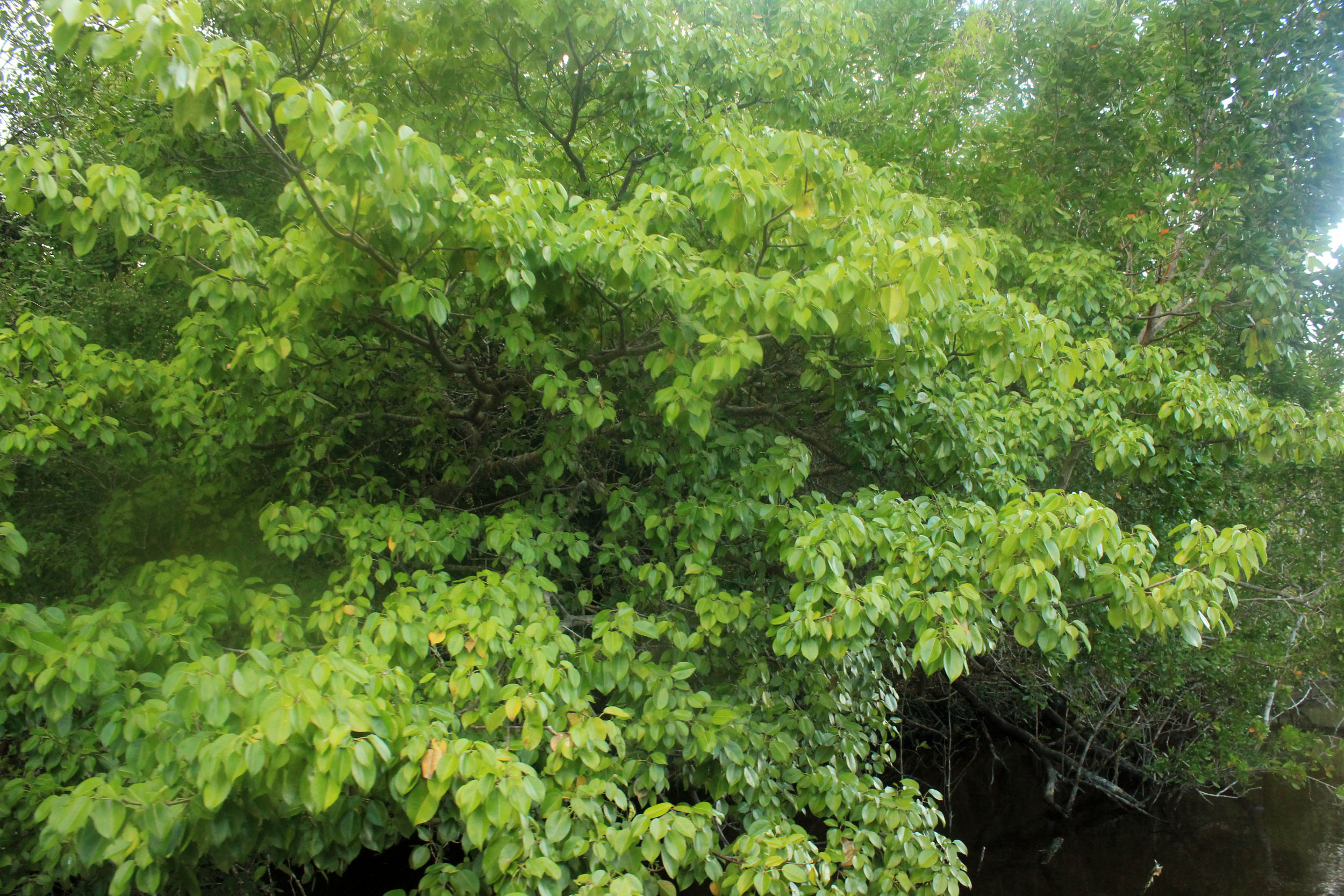 Flowers, trees, and other plant stuff This is the Manchineel tree. It is one of the most toxic plants in Florida. Hippomane mancinella.